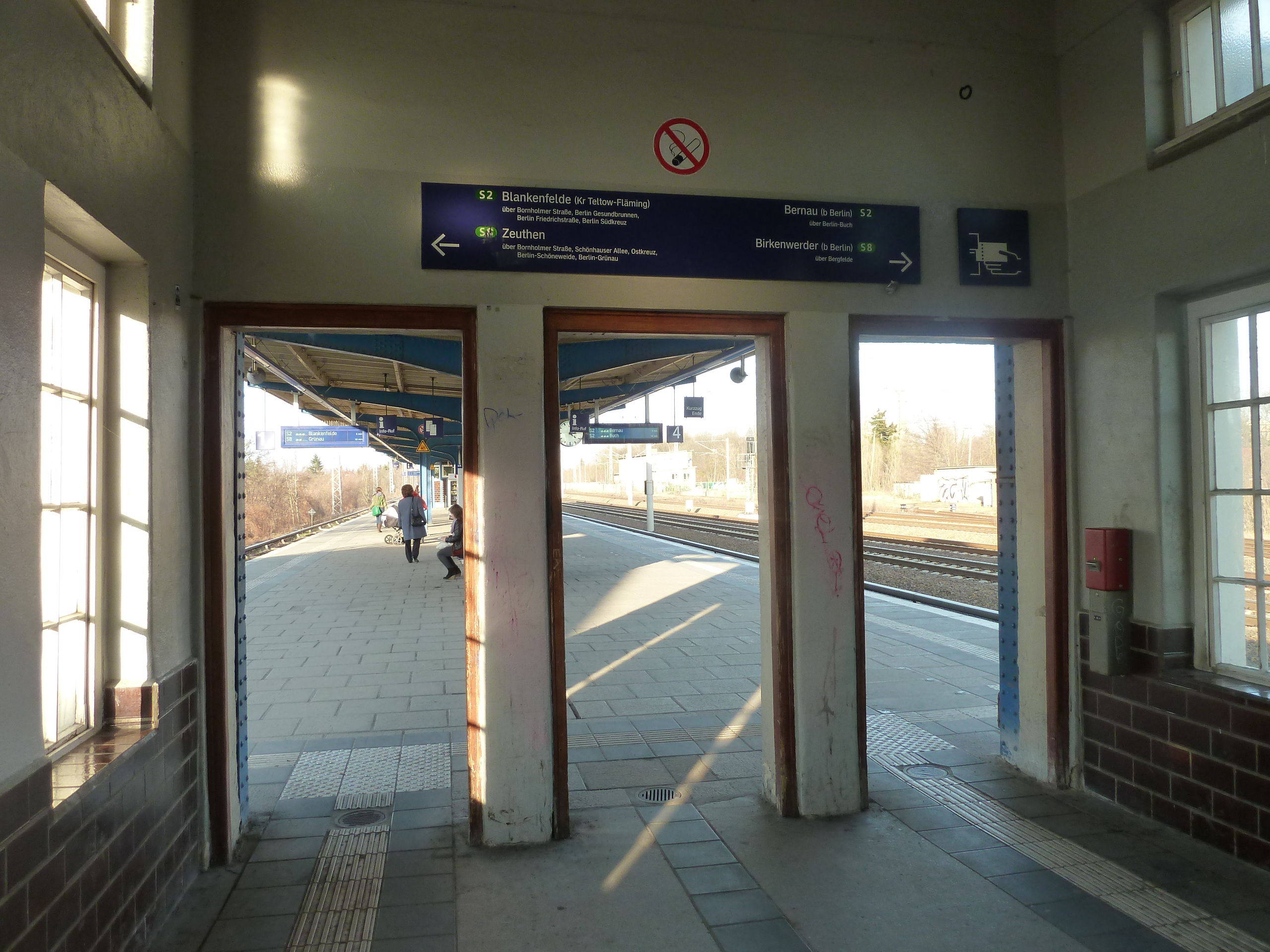 Berlin-Blankenburg railway station, platform